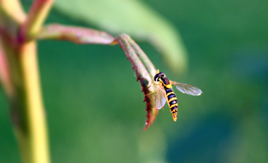 Hoverfly on Roseleaf